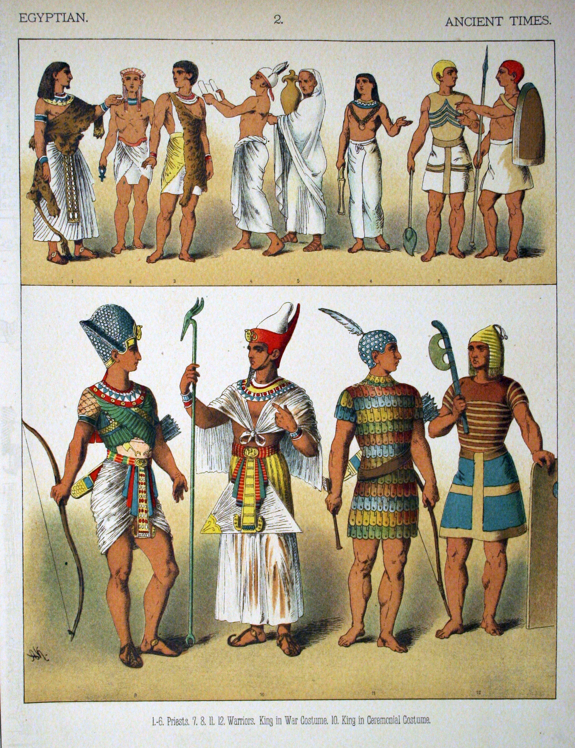 Ancient Times, Egyptian